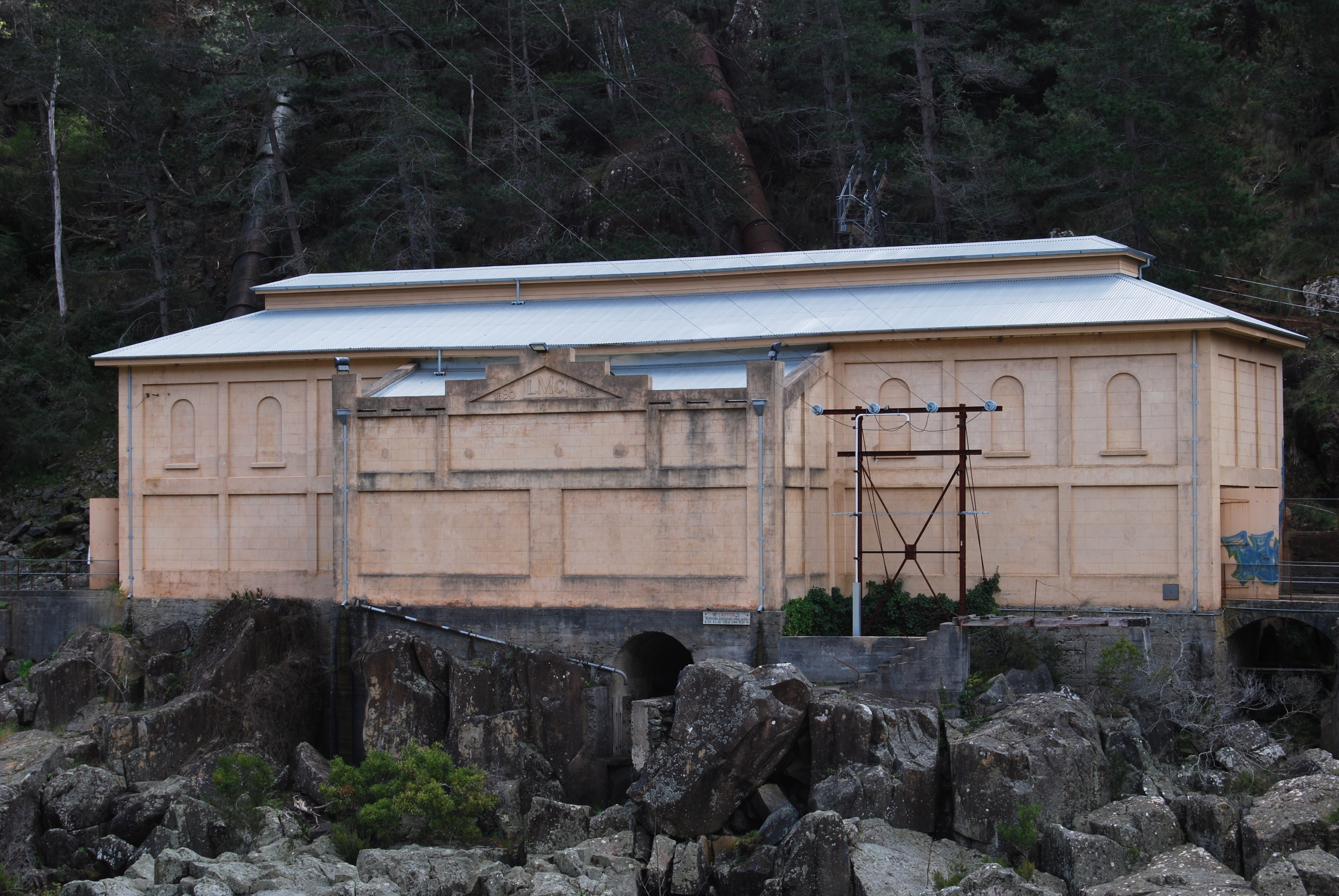 The disused (now a museum) Duck Reach hydroelectric power station in Launceston, Tasmania, South Australia